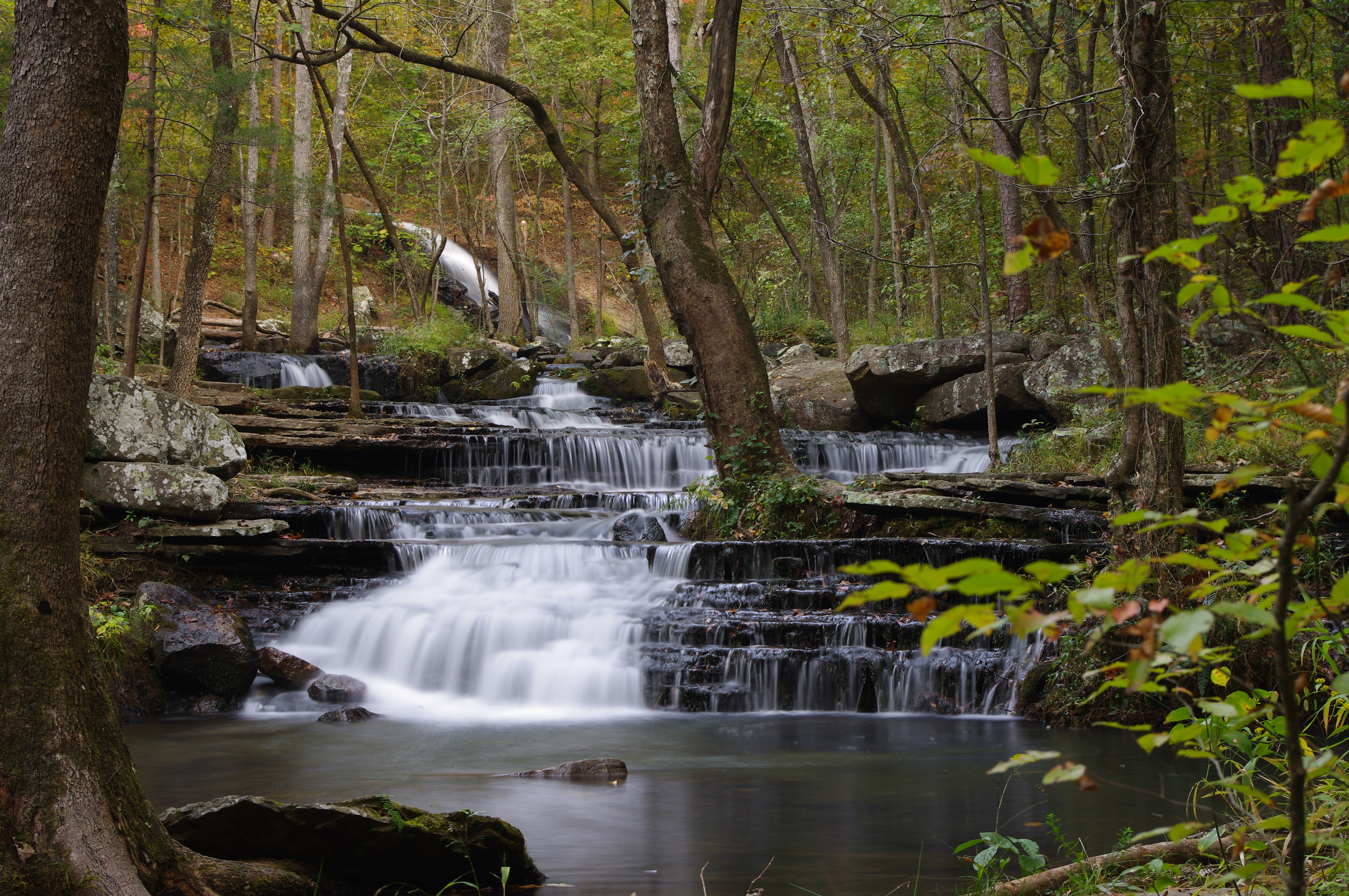 Collins Creek near Heber Springs, AR